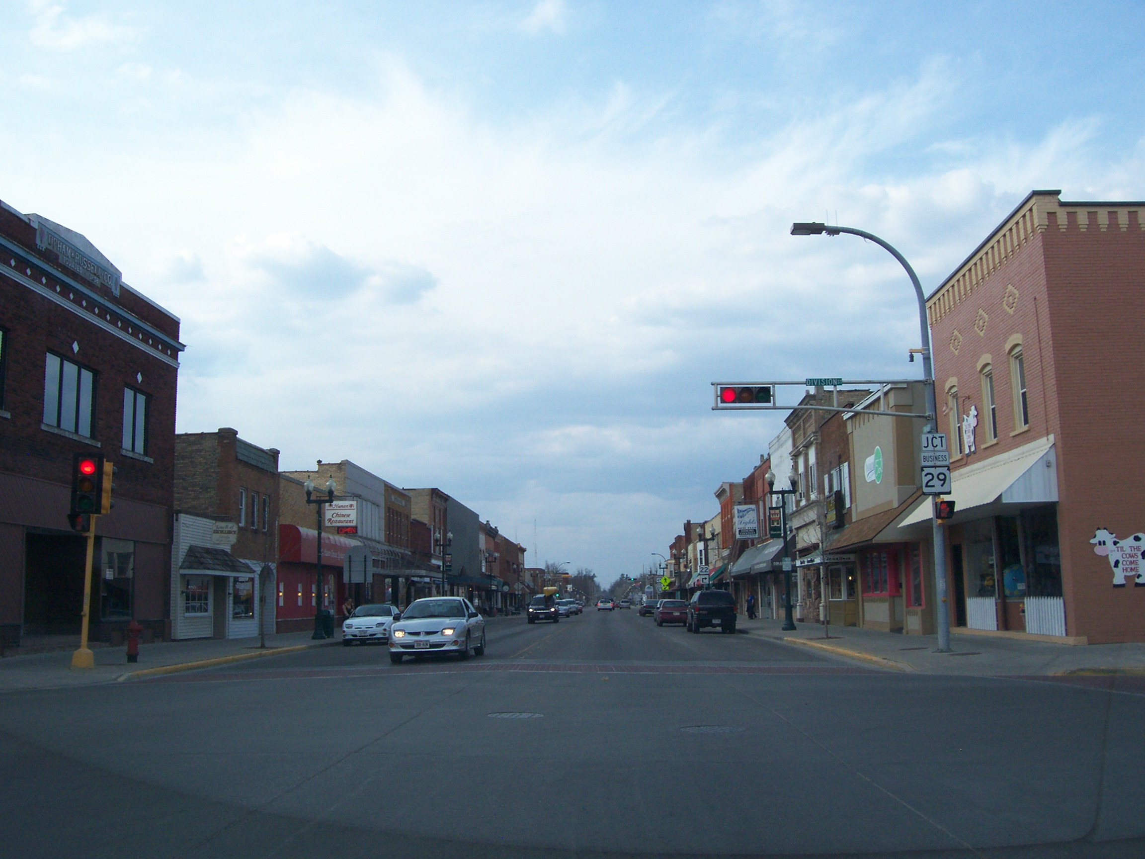 Looking north at the Shawano Main Street Historic District in Shawano, Wisconsin along Wisconsin Highway 22.